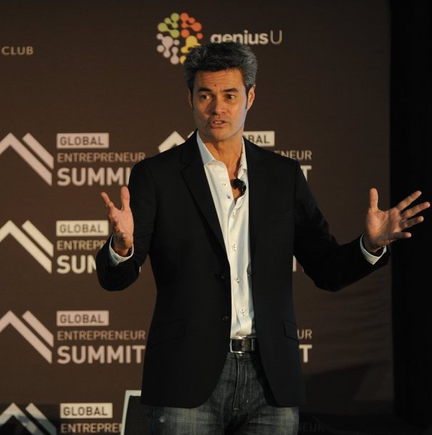 Roger J. Hamilton at Global Entrepreneur Summit 2018, Auckland